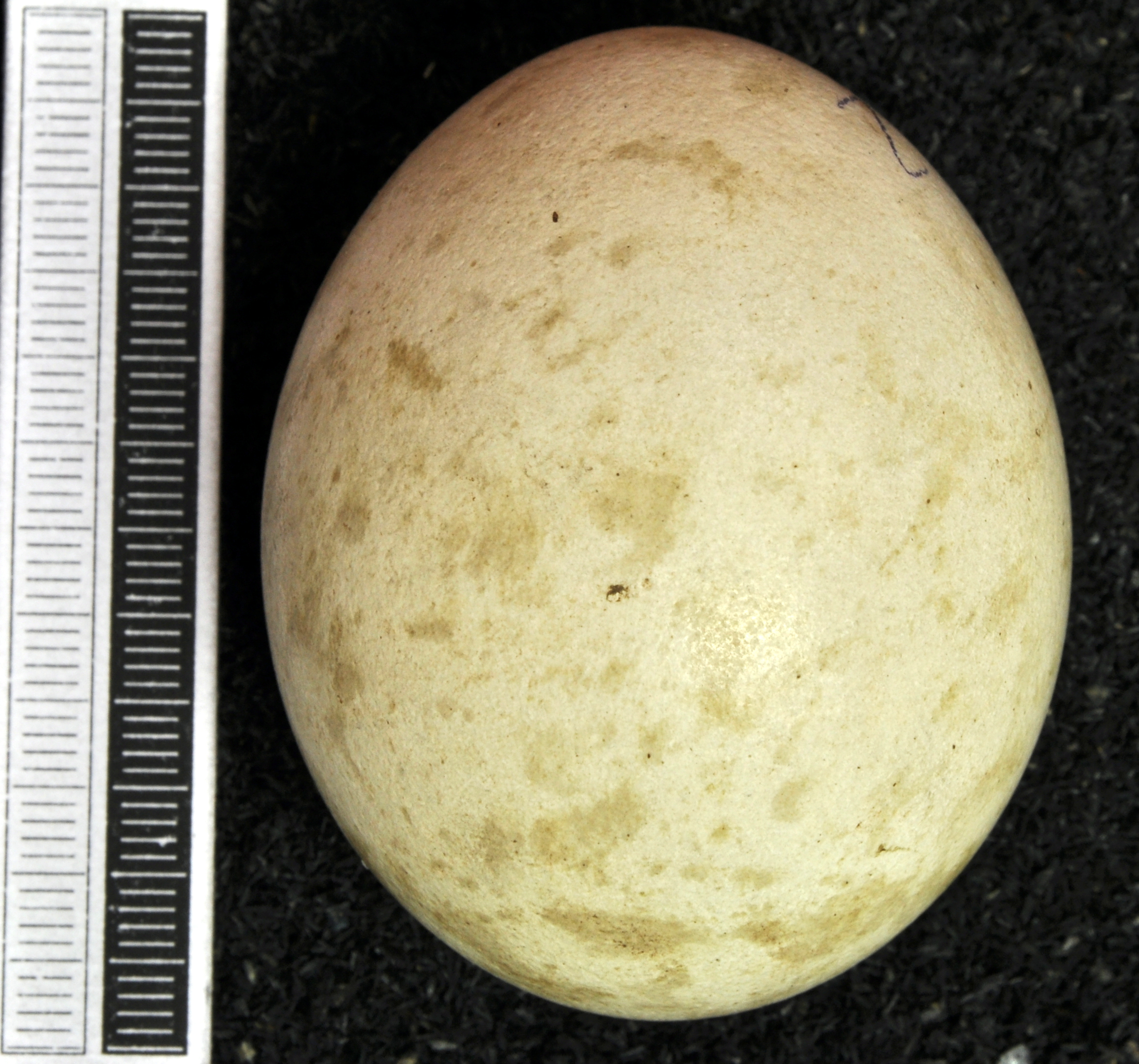 Common buzzard Buteo buteo , egg, Coll. Museum Wiesbaden